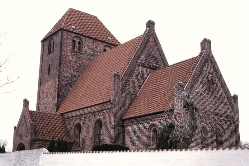 Tirsted Kirke (church)